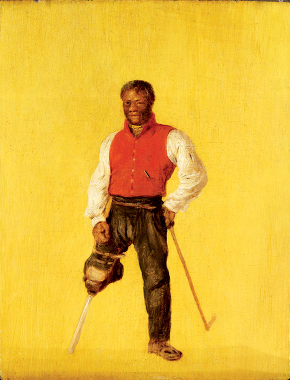 Billy Waters, mariner and street performer/ beggar in 1815. Painting may be by Sir David Wilkie